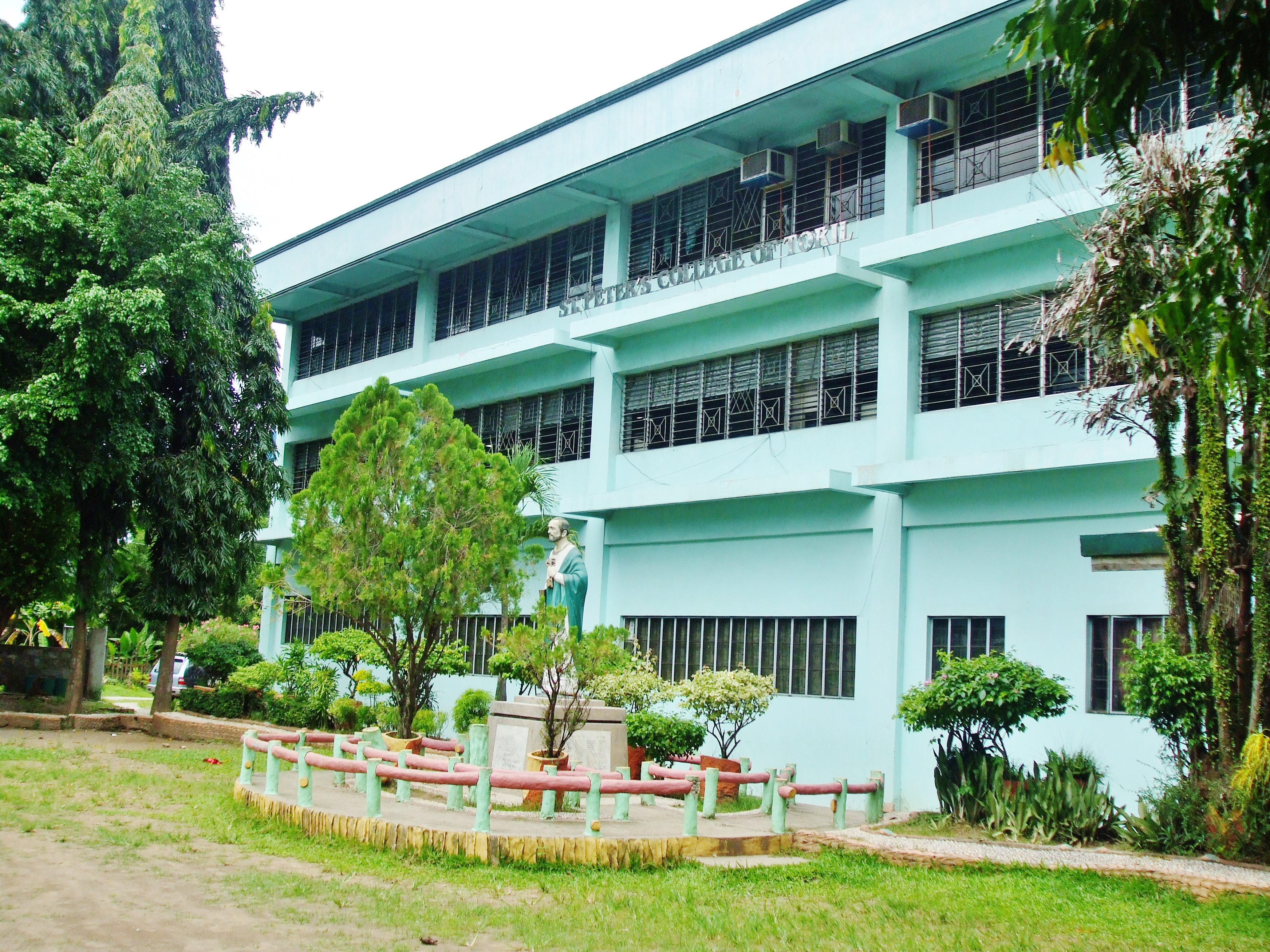 Facing Mc Arthur High Way